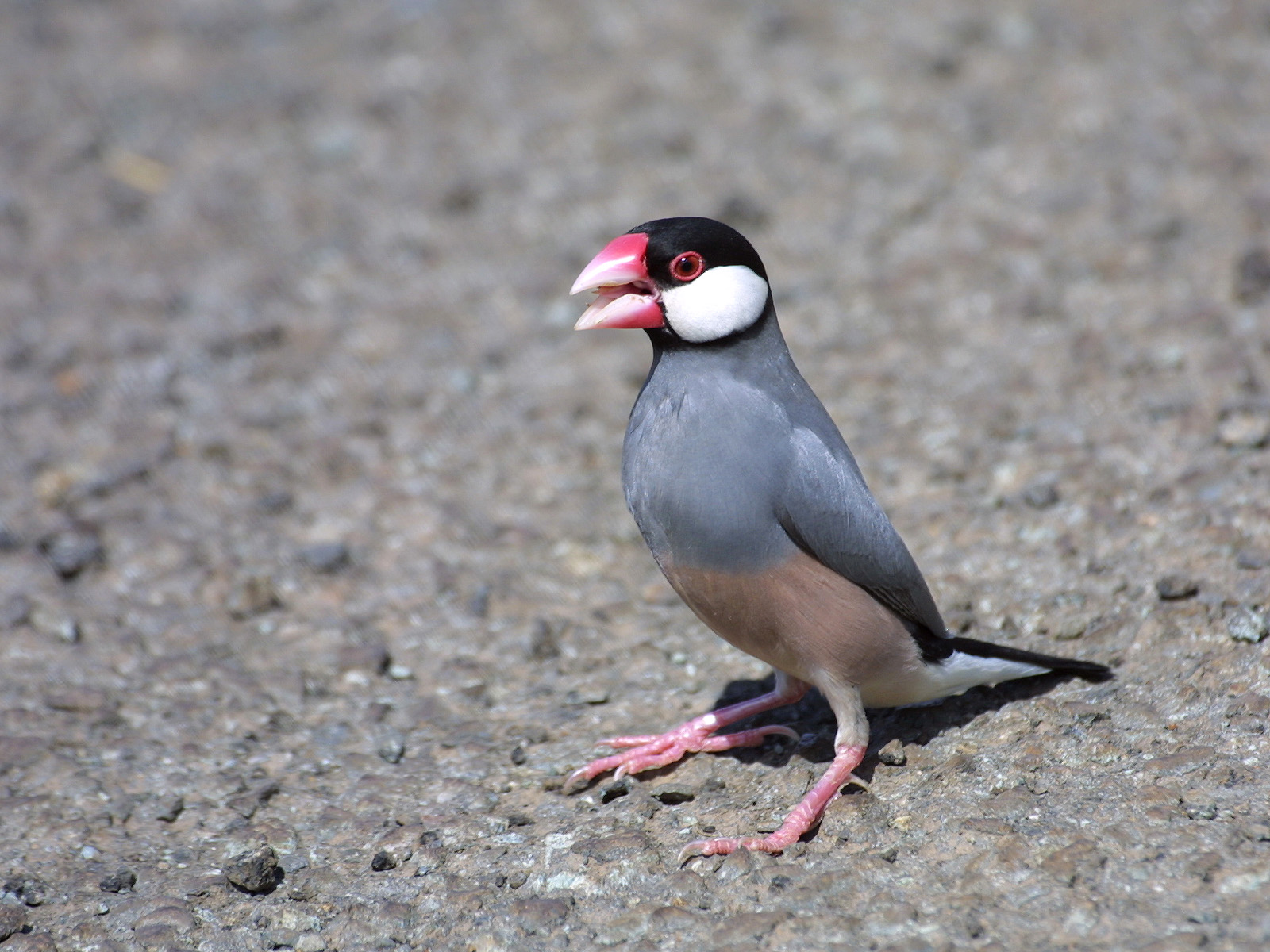 An adult Java Sparrow (also known as Java Finch and Java Rice Bird) at University of Hawaii at Manoa campus, Honolulu, Hawaii, USA.